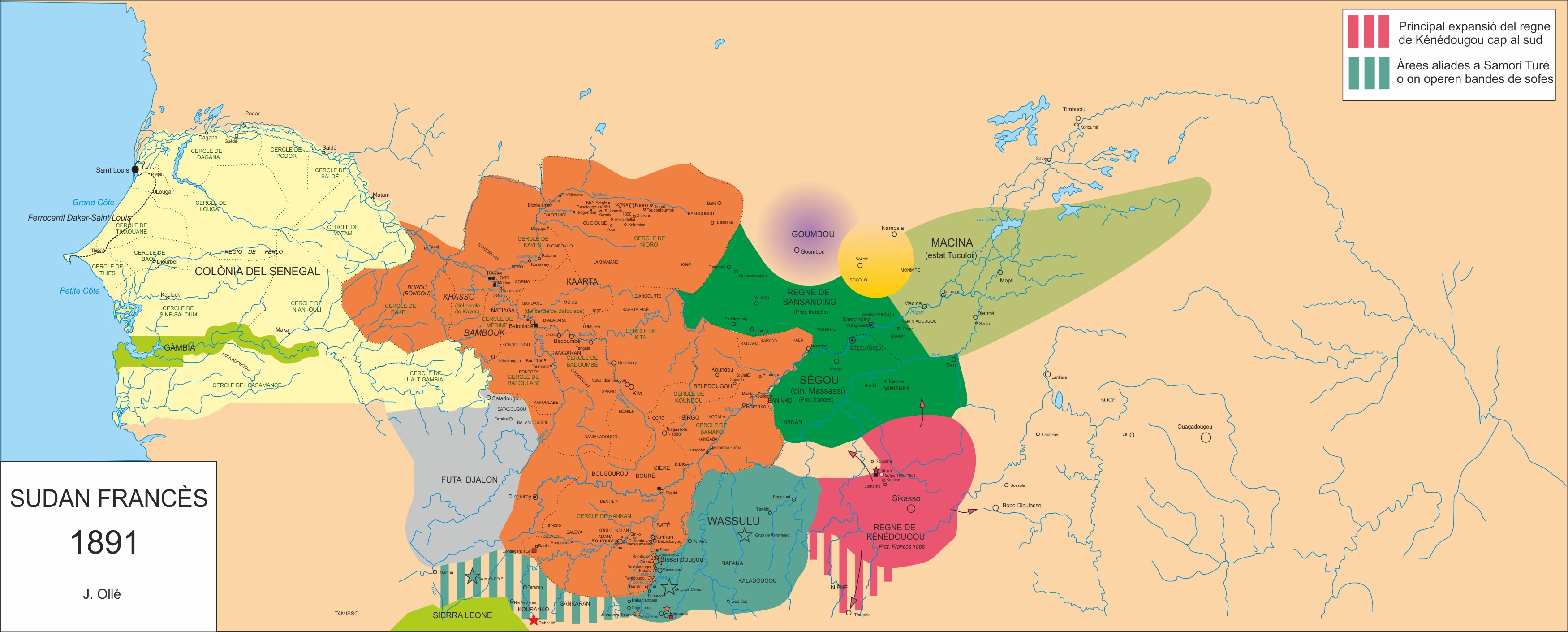 Senegal & Mali 1891, III